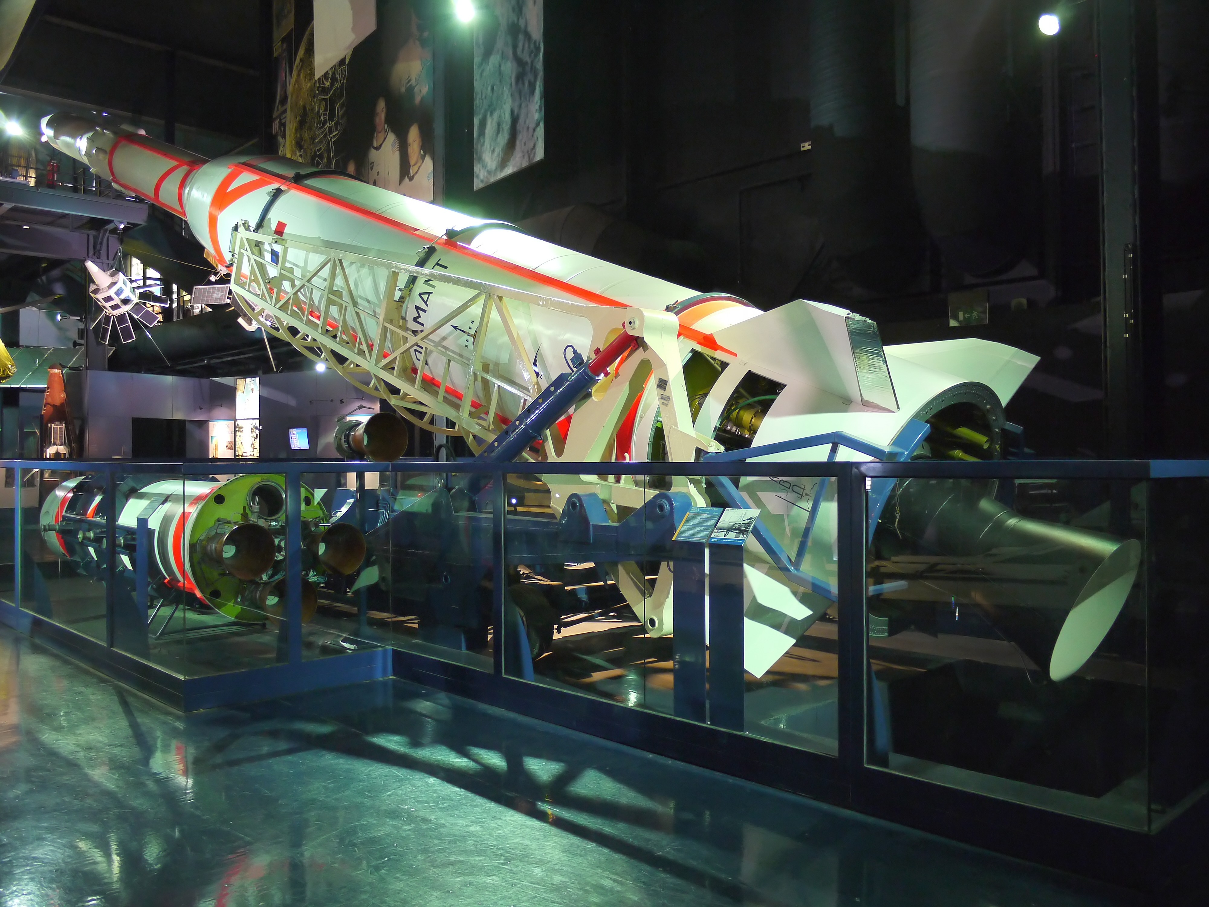 Diamant rocket, Museum of Air and Space Paris, Le Bourget (France)